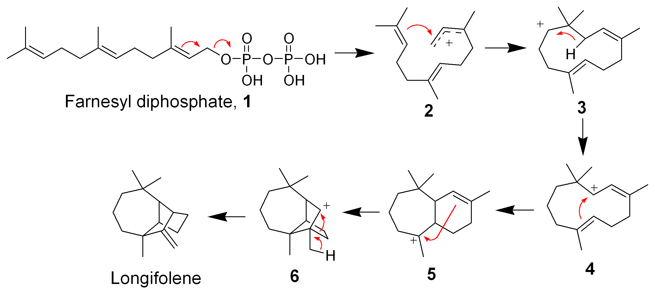 Description: Biochemical synthesis of Longifolene. Author, date of creation: selfmade by ~K, 10 December 2005. Source: - Copyright: Public domain. (PD) Comments: high-resolution b/w PNG; ChemDraw / The GIMP.